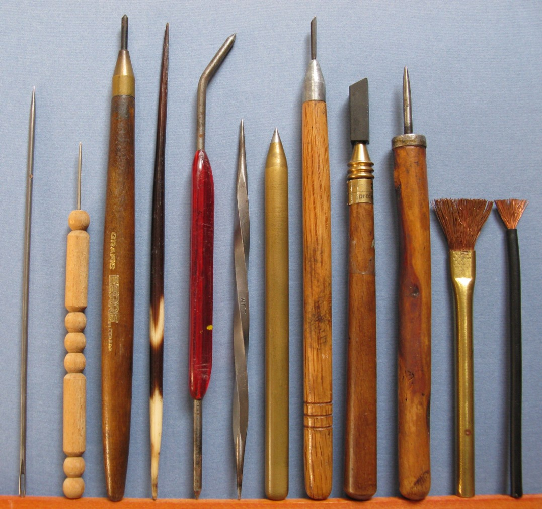 Etching needle